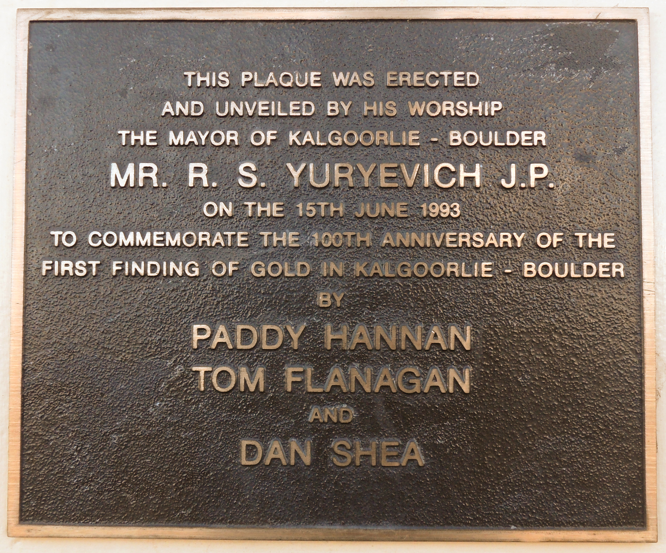 Commemorative plaque honouring Hanna, Flanagan and Shea for finding the first gold in Kalgoorlie, Western Australia.